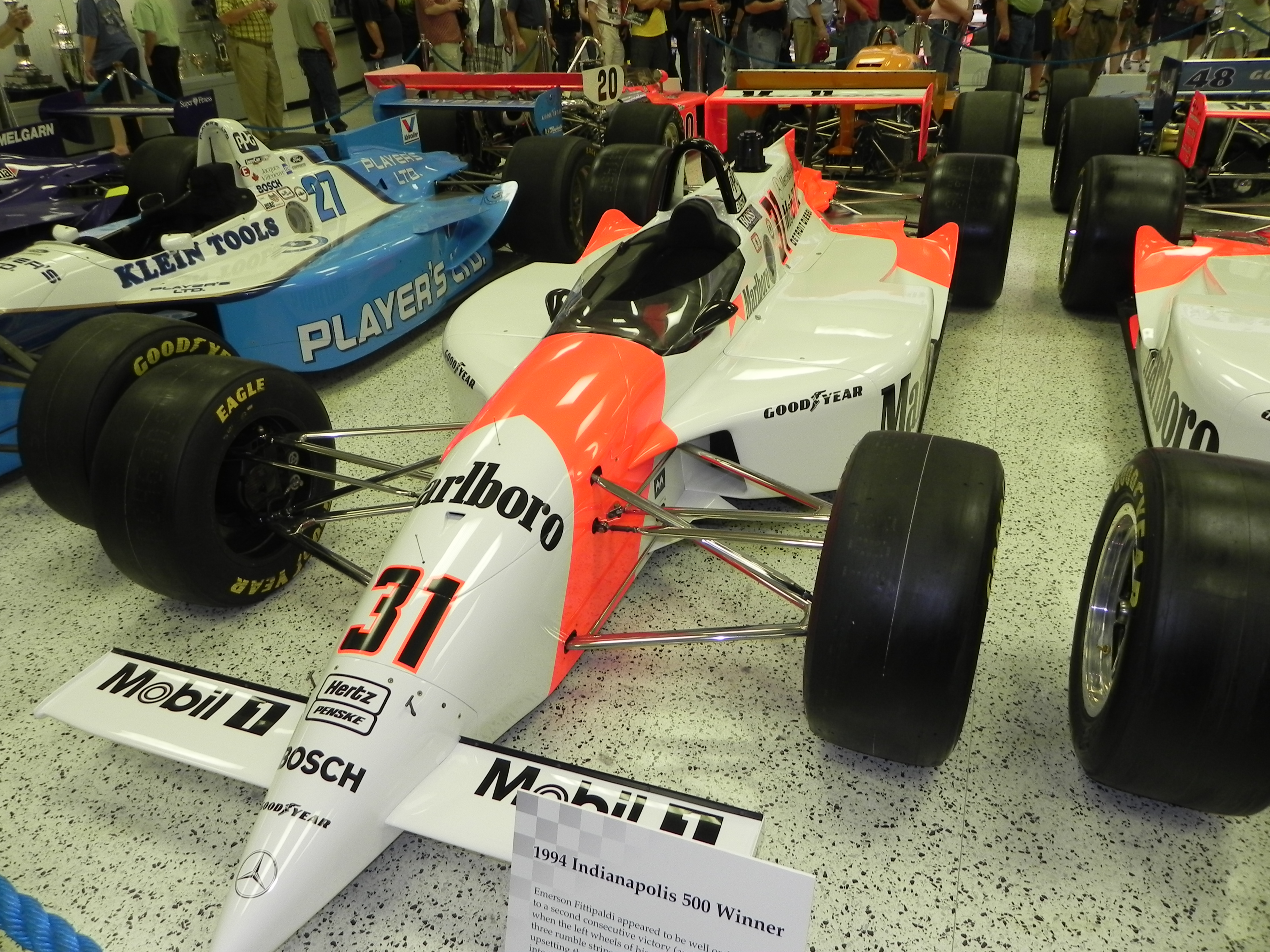 Image of the winning car of the 1994 Indianapolis 500 (Al Unser, Jr.). Photo was taken at the Indianapolis Motor Speedway Hall of Fame Museum, during the month of May 2011, at the 100th Anniversary "Ultimate Indianapolis 500 Winning Car Collection."